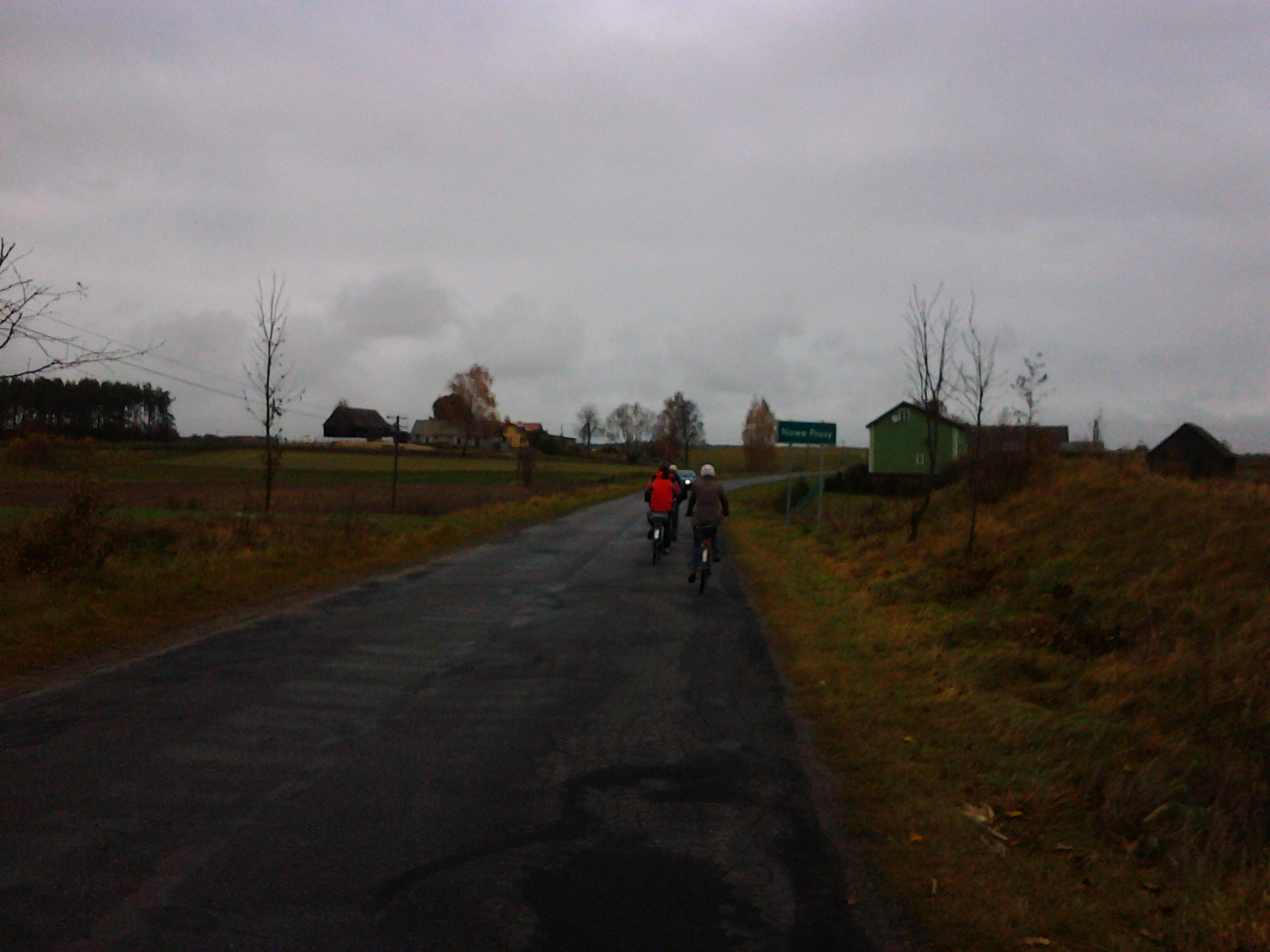 View of village Nowe Prusy, Pomeranian Voivodeship, Poland.